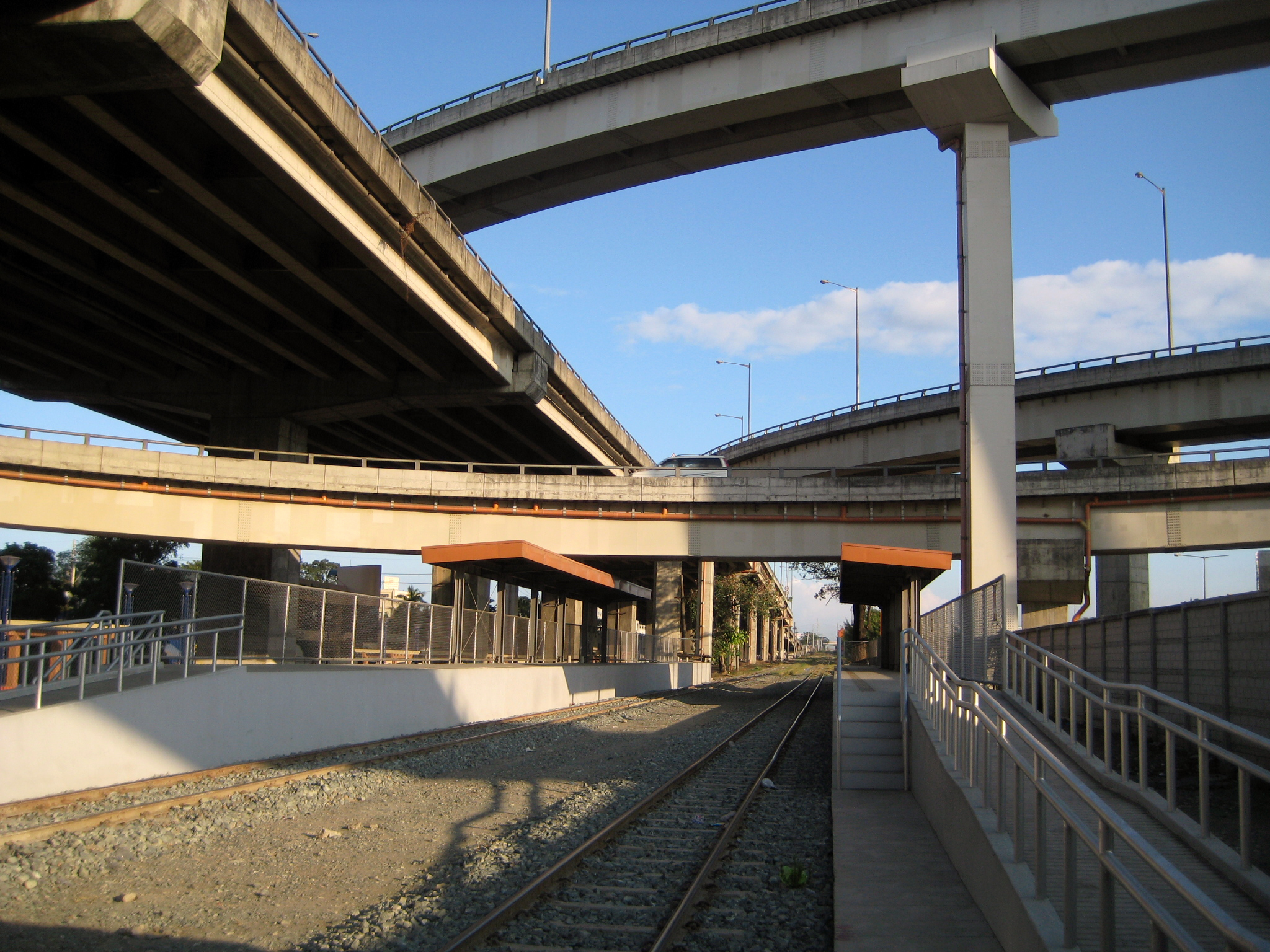 The Nichols railway station located in East Service Road, Barangay Western Bicutan, Taguig City. The elevated roads above the station are collector/distributor roads of Metro Manila Skyway (wide elevated road in the left side) leading to Ninoy Aquino International Airport.